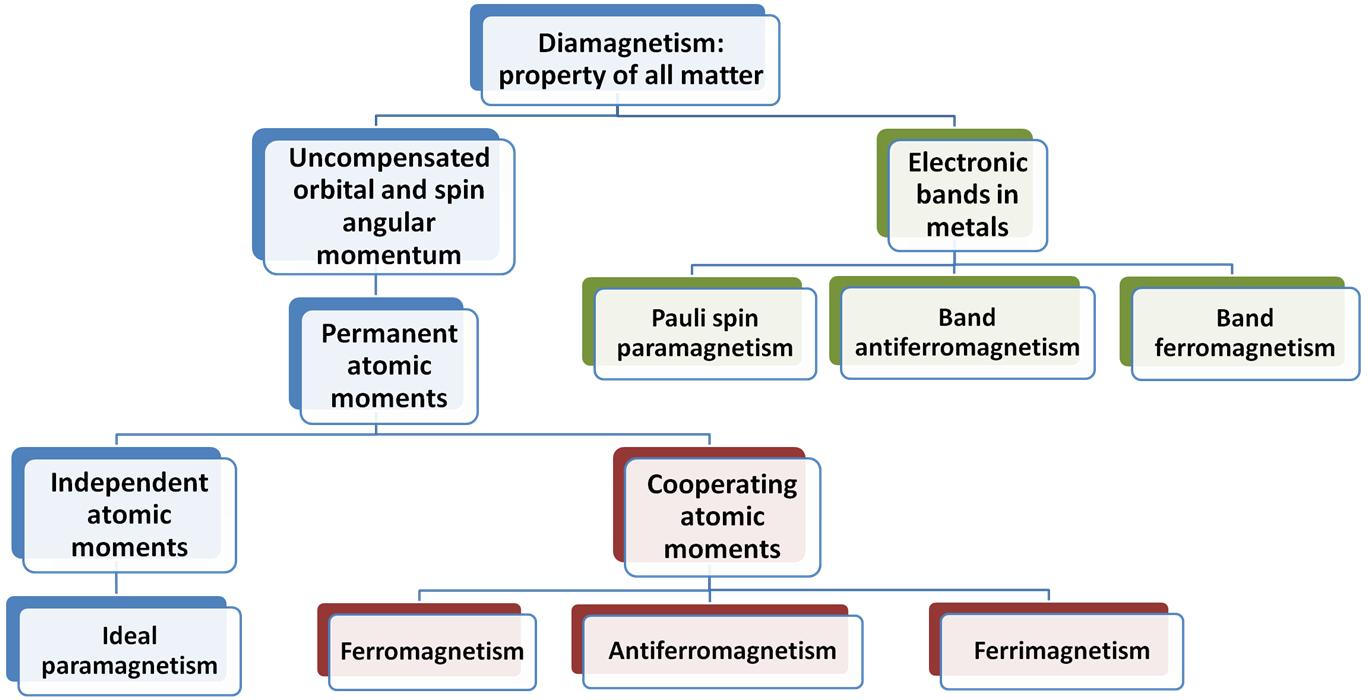 Hierarchy flow chart for magnetism types Patterned after HP Meyers (1997) Introductory solid state physics (2nd ed.), CRC Press, p. 322; Figure 11.1 ISBN: 0748406603.